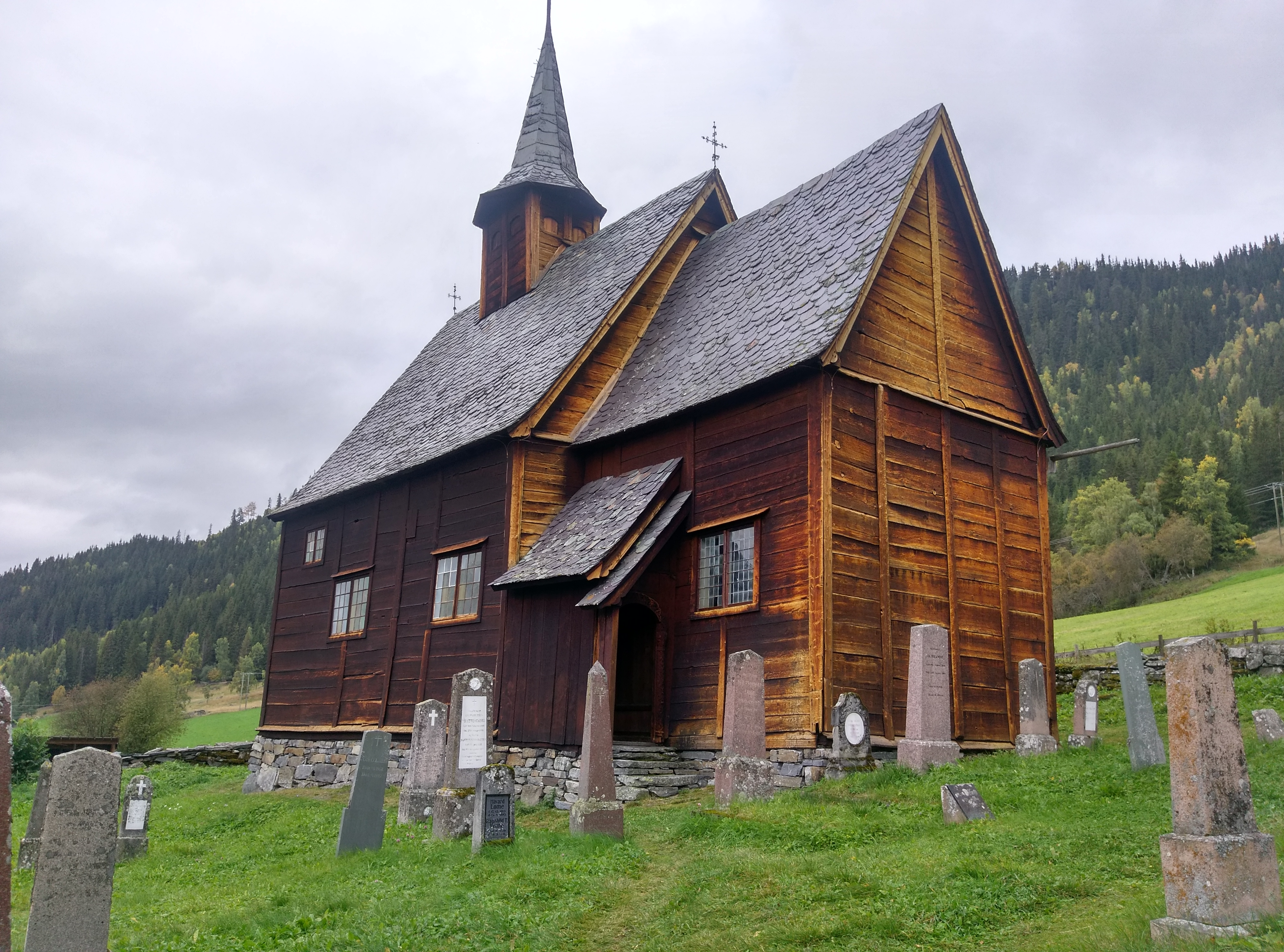 The Lomen stave church and a portion of the graveyard after historical renovations have been completed.